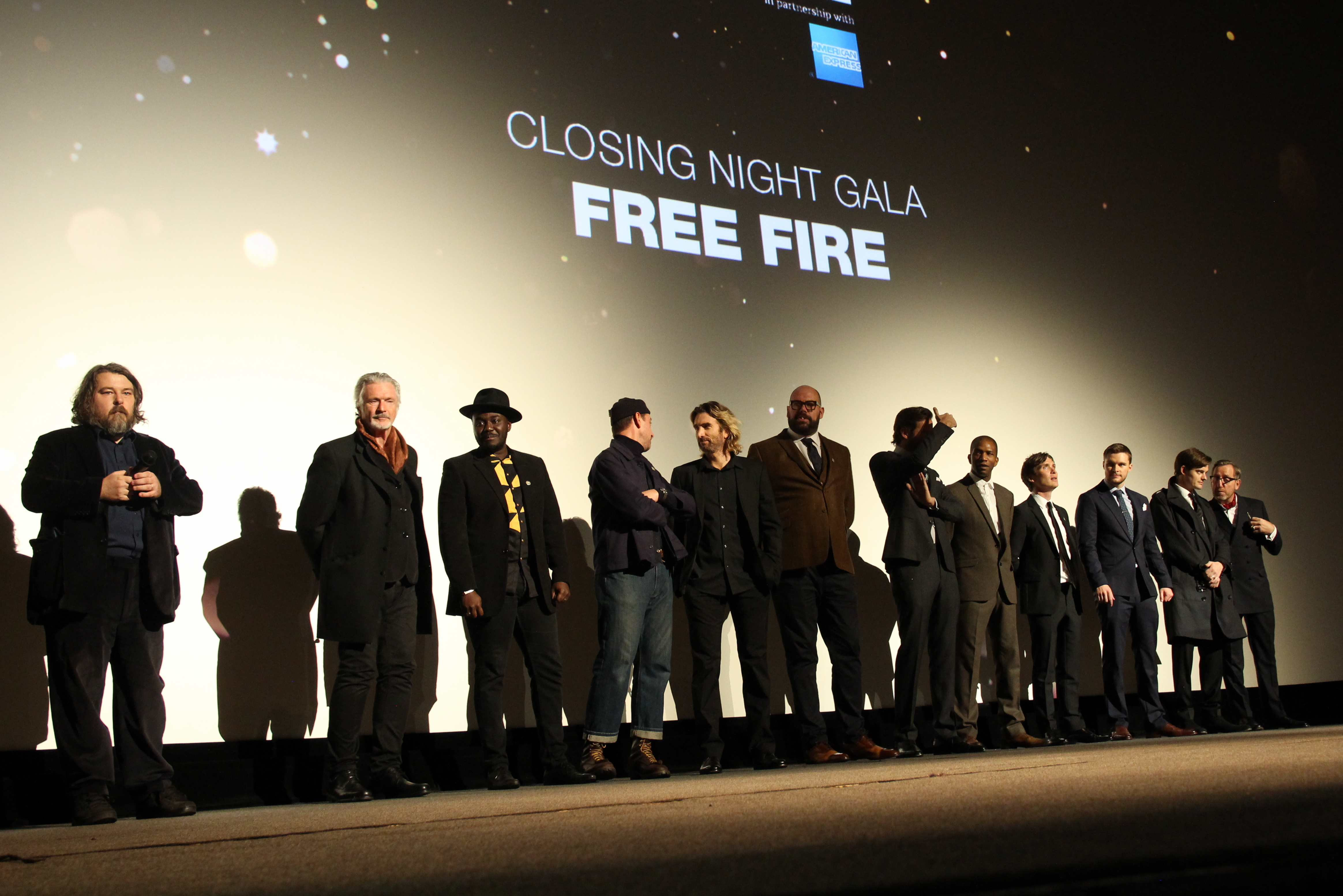 Ben Wheatley and the cast of Free Fire (inc. Armie Hammer, Cillian Murphy, Sam Riley, Sharlto Copley)